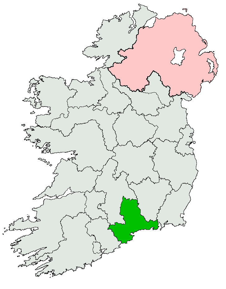 Map depicting the former Irish electoral constituency of Waterford-Tipperary West, created under the Government of Ireland Act 1920 and abolished under the Electoral Act of 1923.